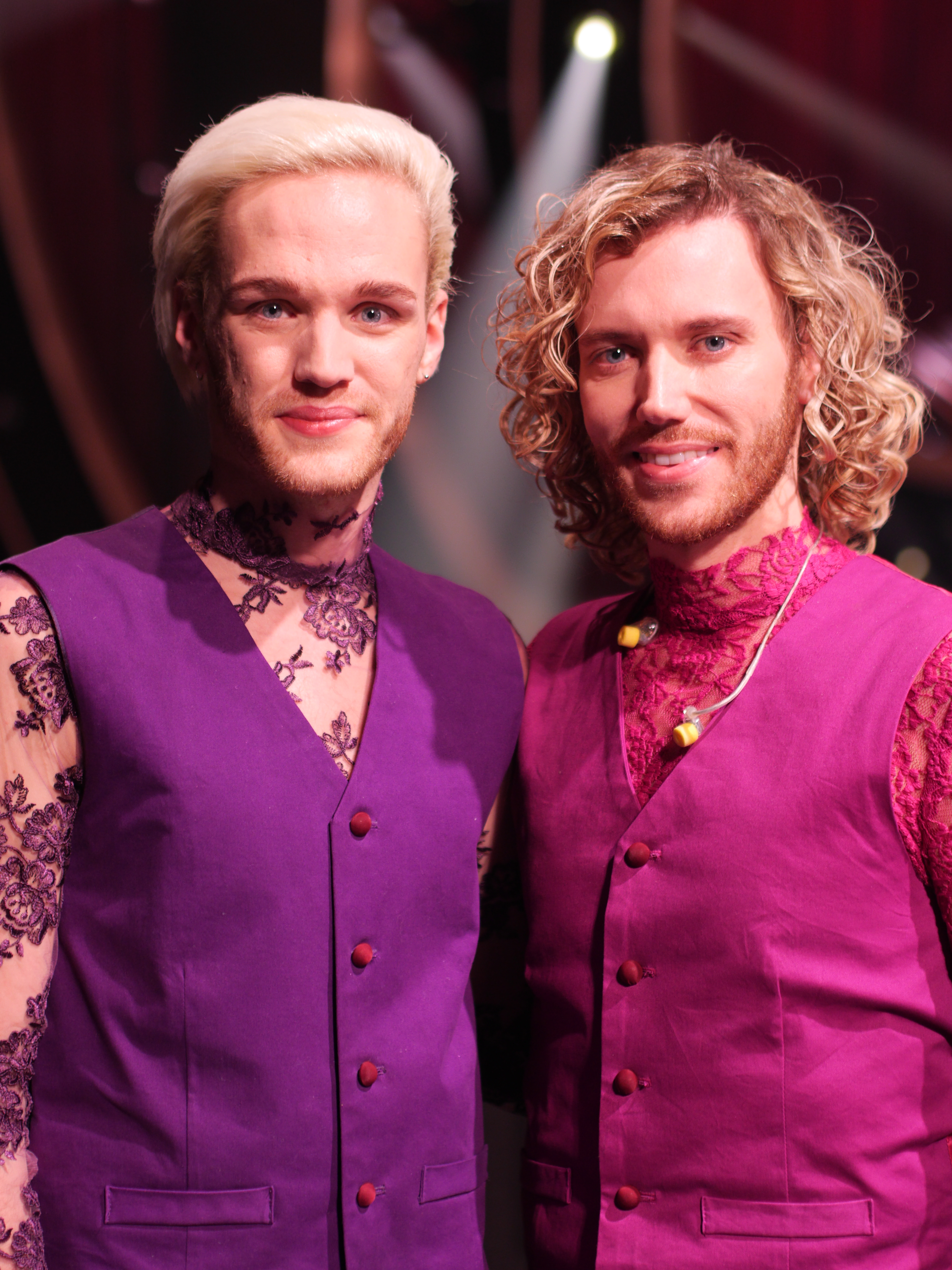 Melodifestivalen 2019, part contest 3, Leksand, Sweden